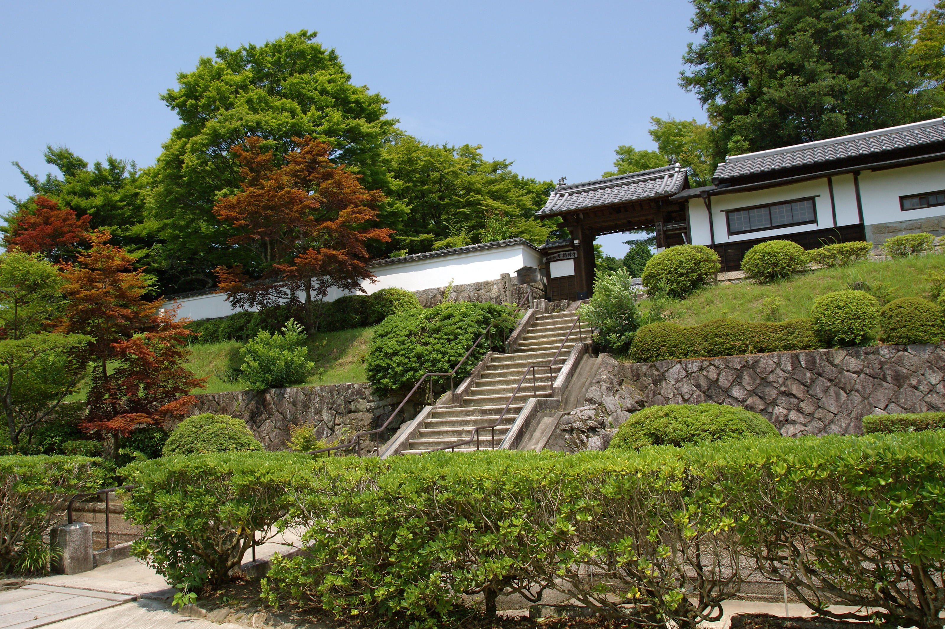 Hotokuji in Nara, Nara prefecture, Japan